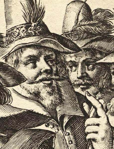 Cropped detail of Christopher (left) and John Wright, from a contemporary engraving of the Gunpowder Plotters. The Dutch artist probably never actually saw or met any of the conspirators, but it has become a popular representation nonetheless.